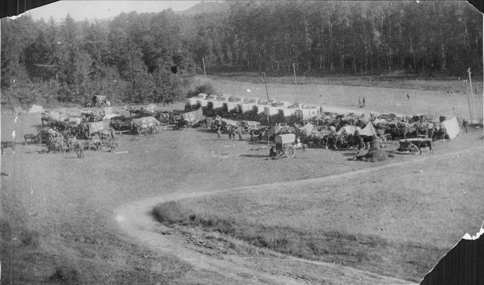 A Field Ambulance bivouacking after a long march somewhere in France.